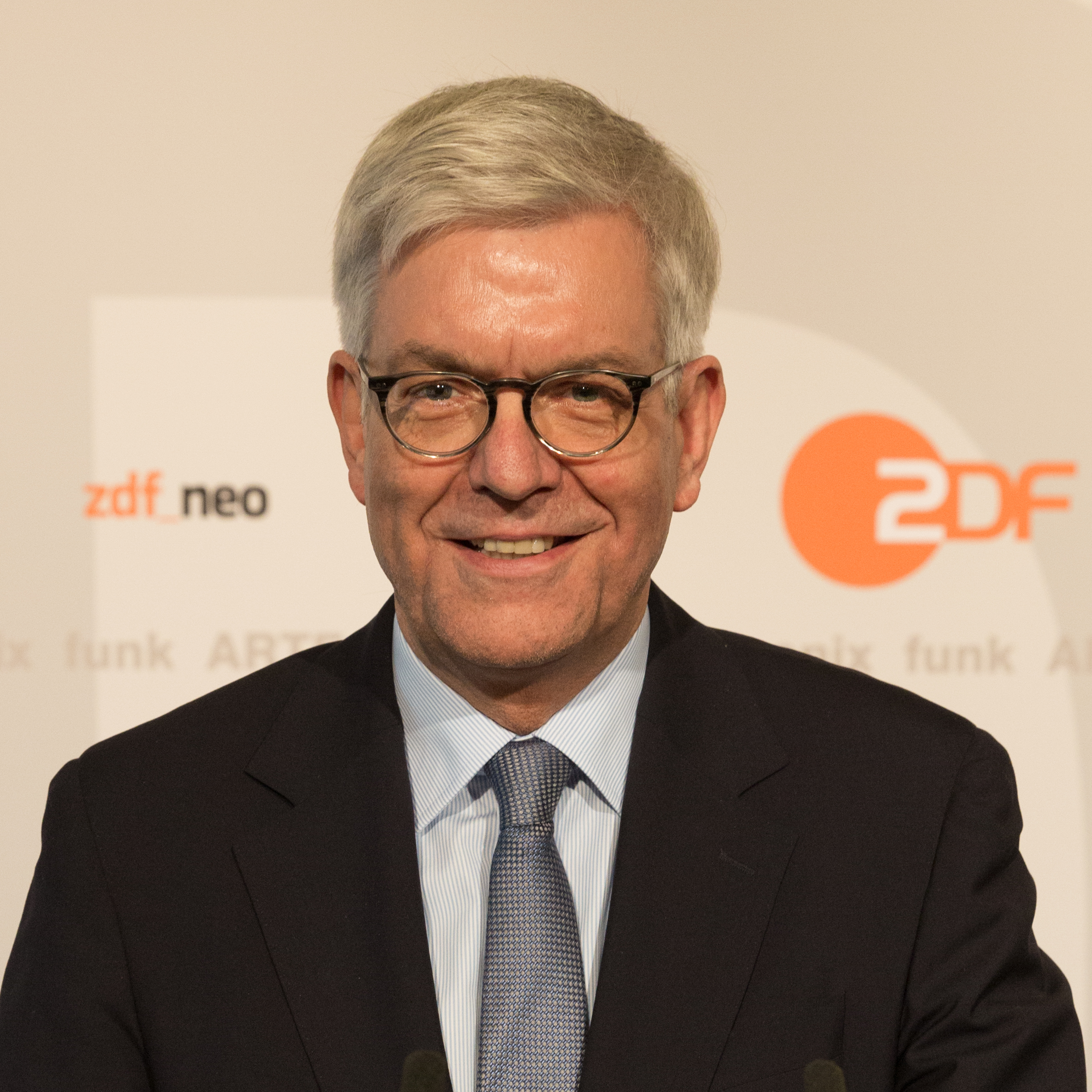 Thomas Bellut, ZDF Intendant